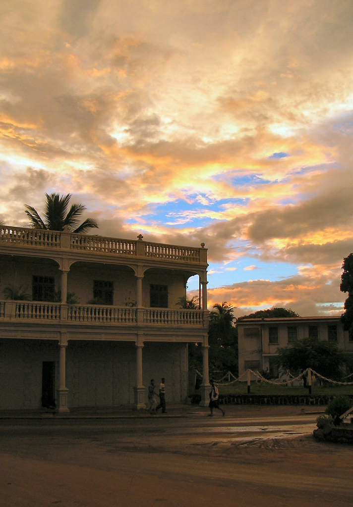 Antsiranana (Diego Suarez) at dusk in Madagascar